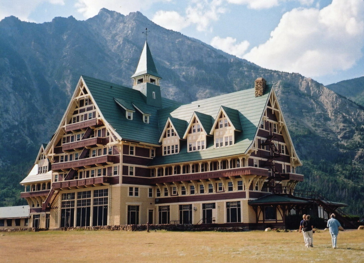 Prince of Wales Hotel is at Waterton Lakes National Park in Alberta, Canada.